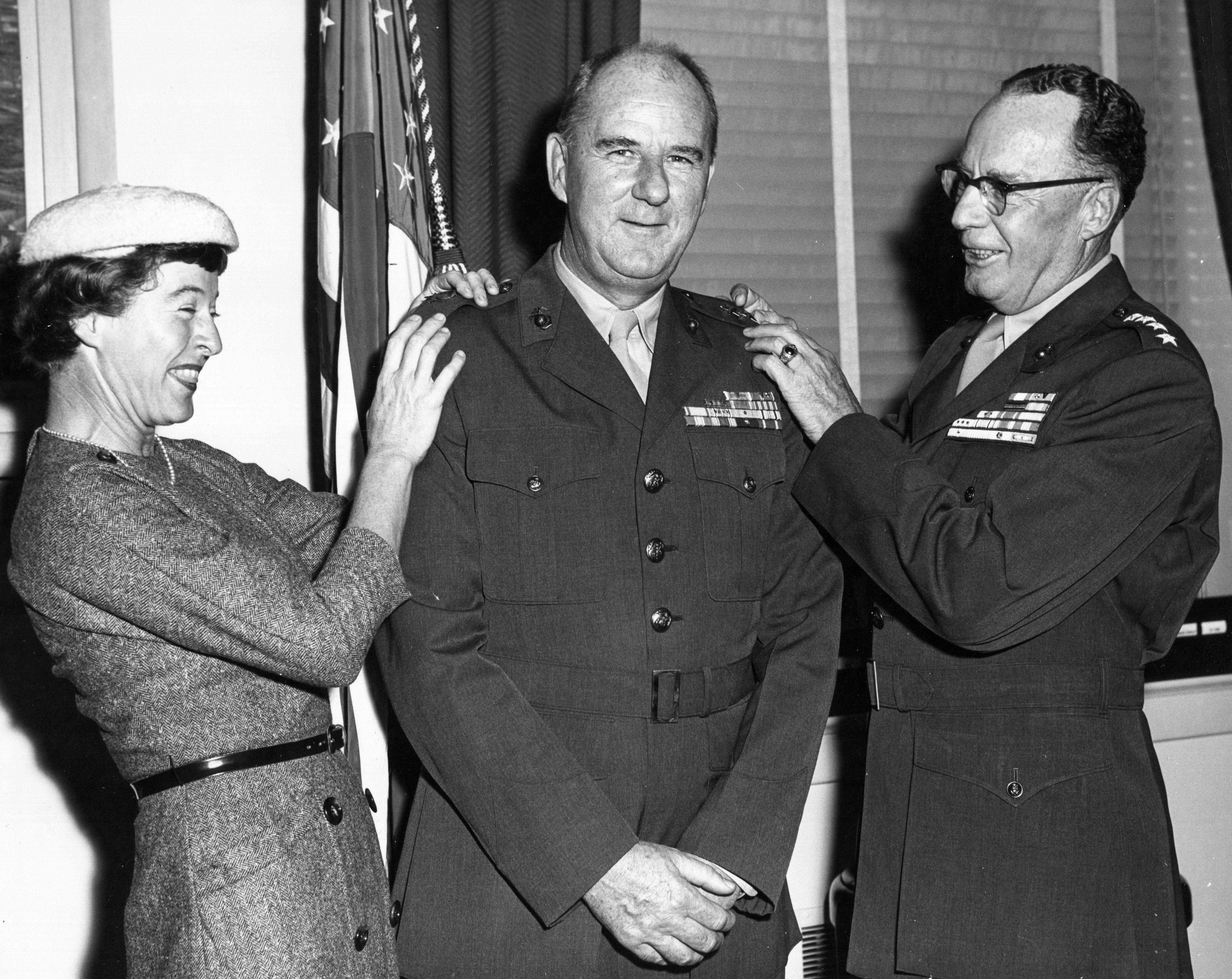 Major general Robert B. Luckey, USMC (center), has the stars of his new rank pinned on by his wife, Mrs. Cary Luckey and General Randolph M. Pate, Commandant of the Marine Corps, during informal ceremonies at Headquarters Marine Corps in Washington, D.C.